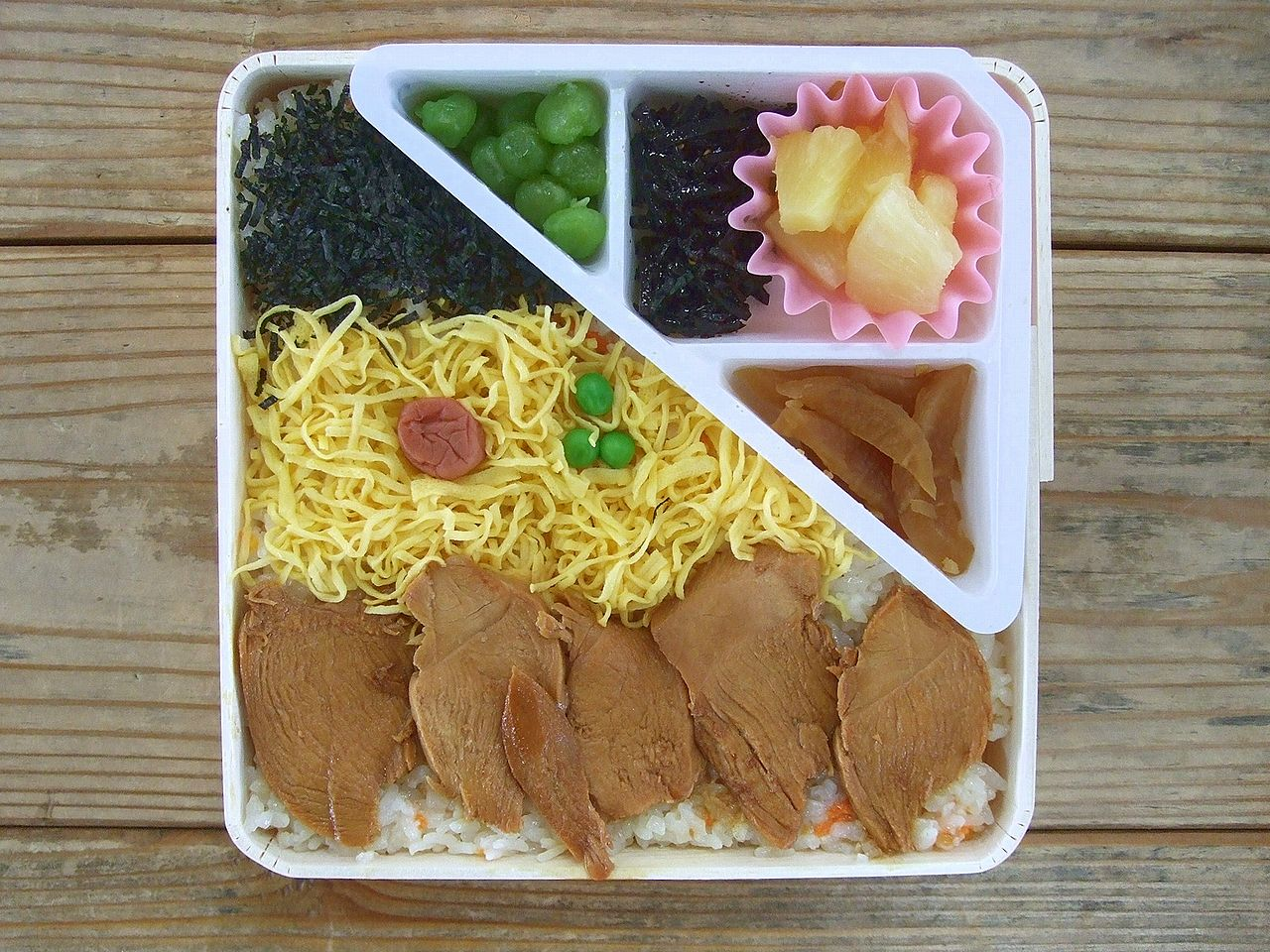 Kashiwameshi Bento, made by Setoyama Bento, sold at Miyakonojō Station and Nishi-Miyakonojō Station, Miyakonojo City, Miyazaki, Japan.